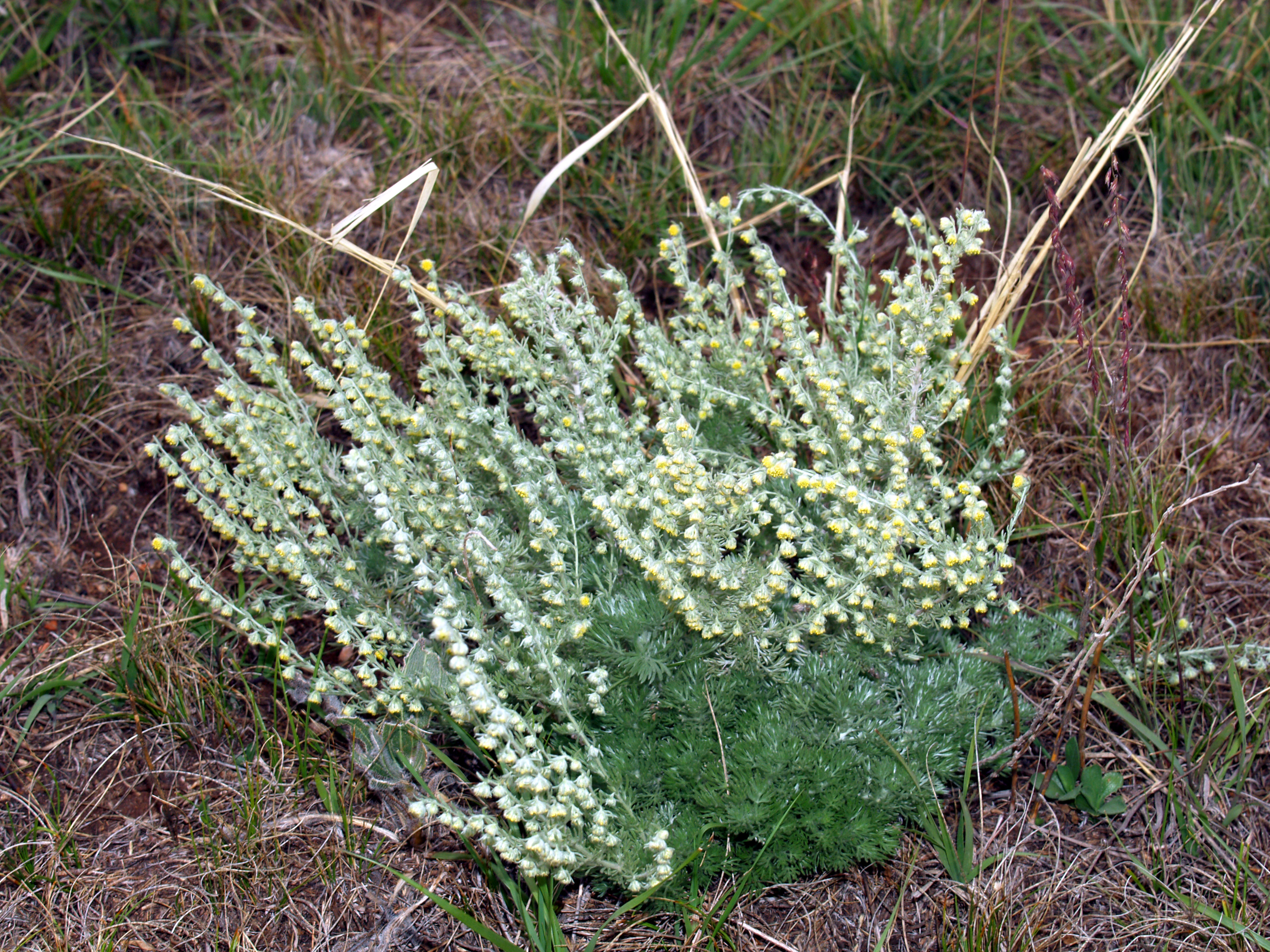 Artemisia frigida at Wind Cave National Park, South Dakota, USA